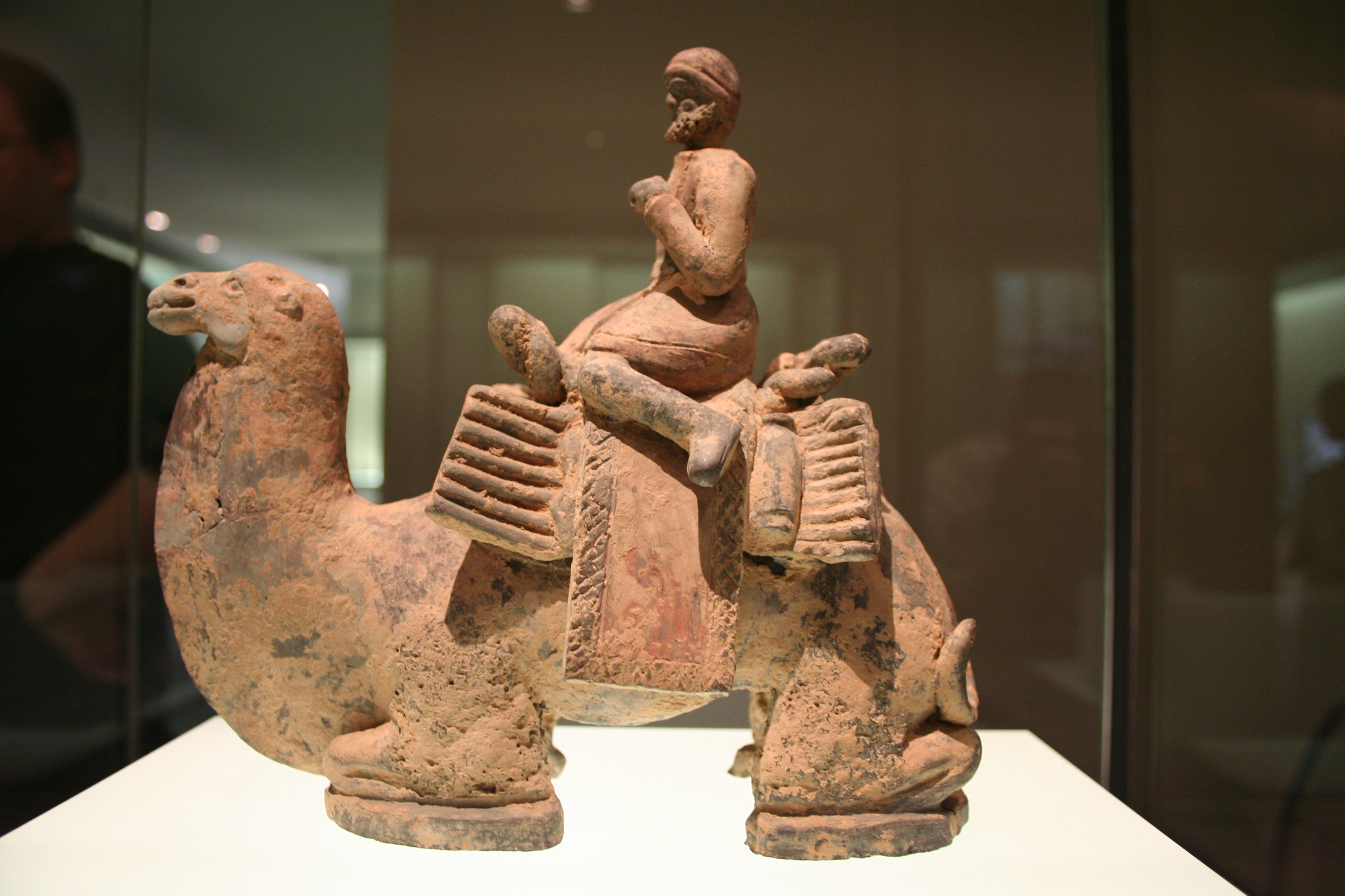 A foreigner depicted as a camel driver; Chinese terracotta sculpture from the Northern Wei Dynasty (386-534 AD). Cernuschi Museum, Paris, France.